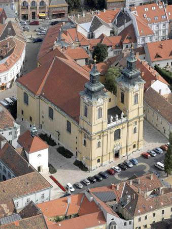 Székesfehérvár, Hungary, aerial photography